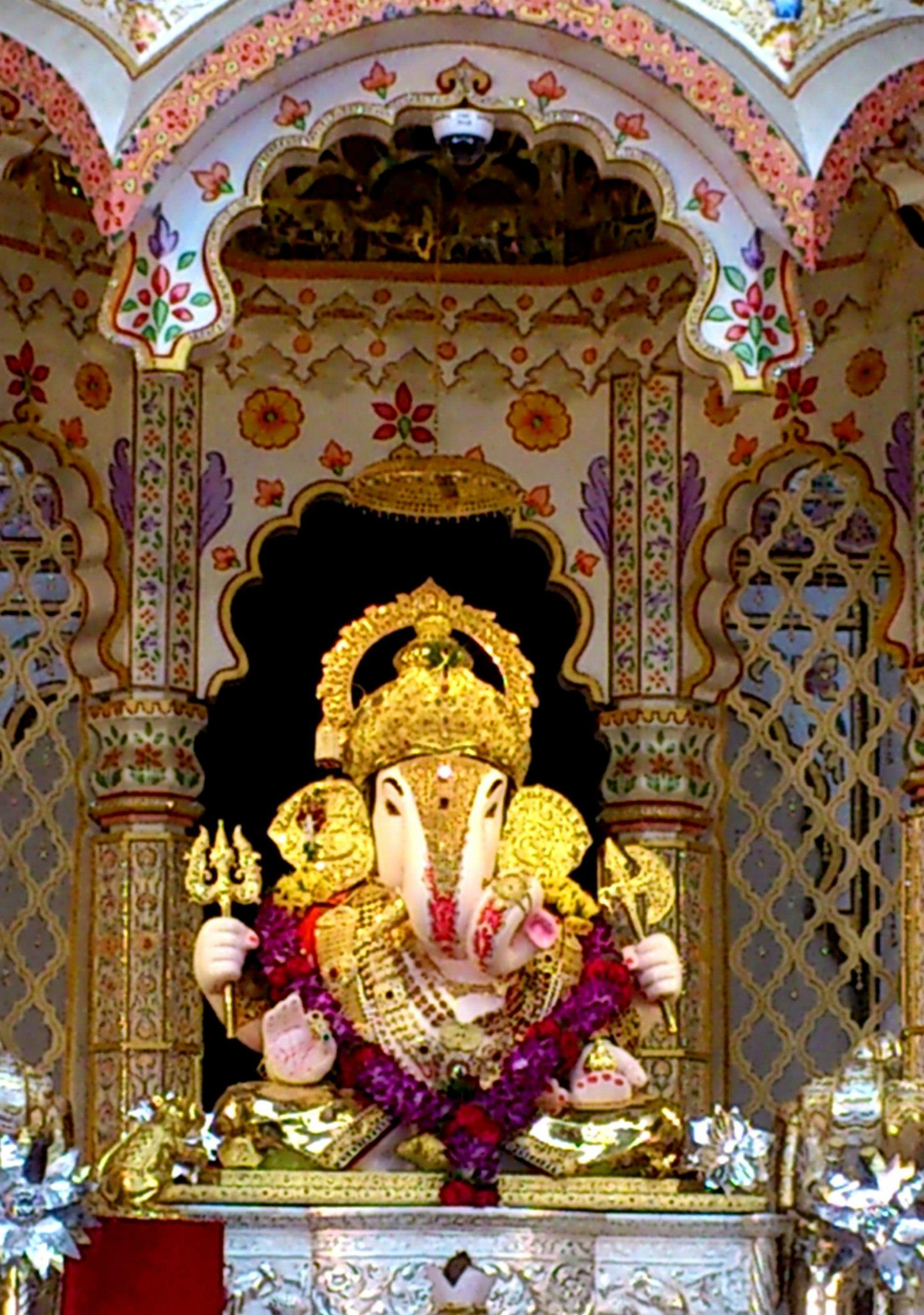 Shrimant dagdu sheth during ganapti festival